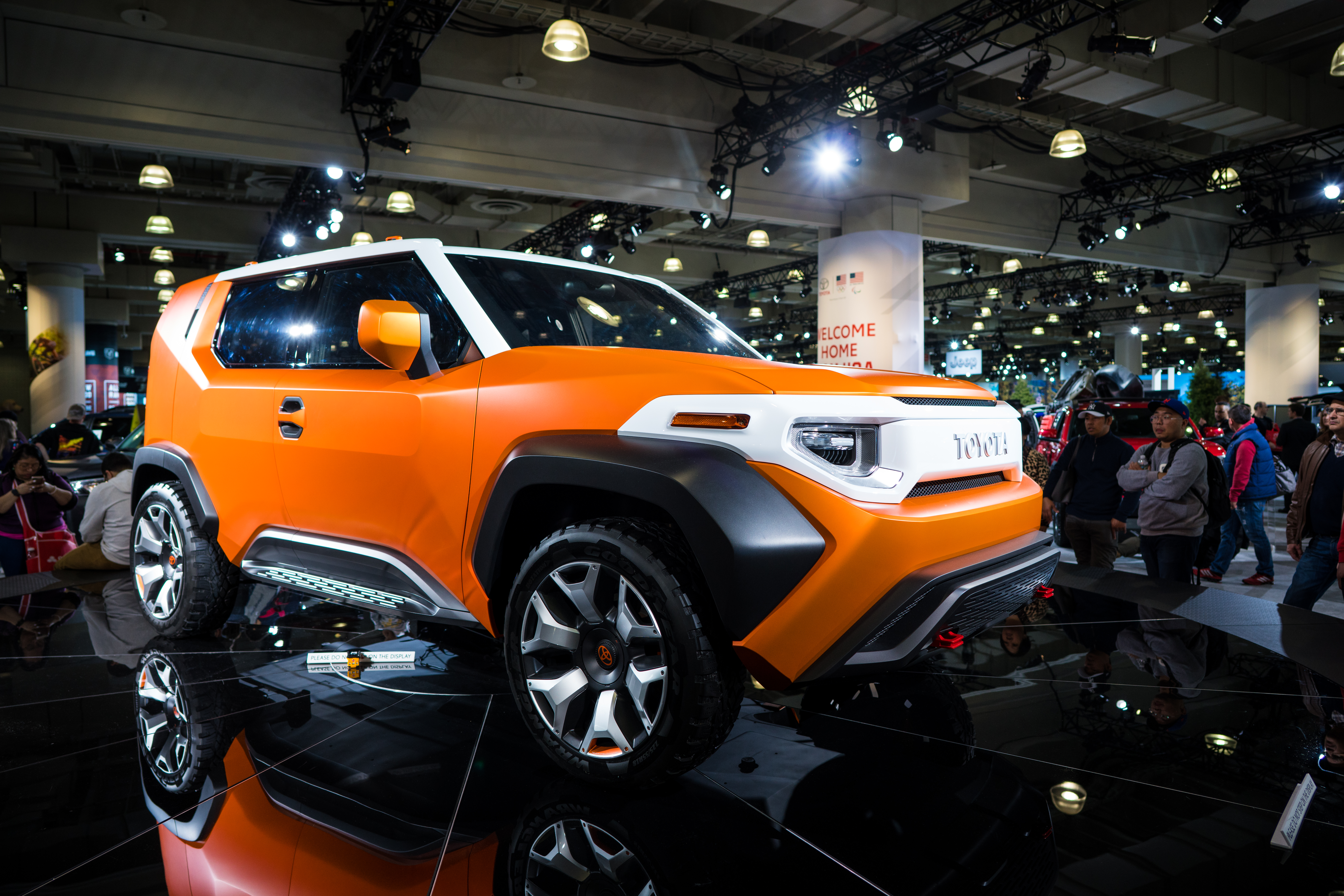 Toyota FT-4X at the New York International Auto Show NYIAS